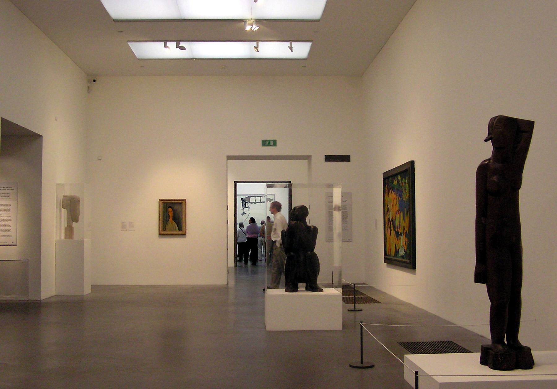 A gallery in Tate Modern. Photographed by Adrian Pingstone in June 2005 and released to the public domain.